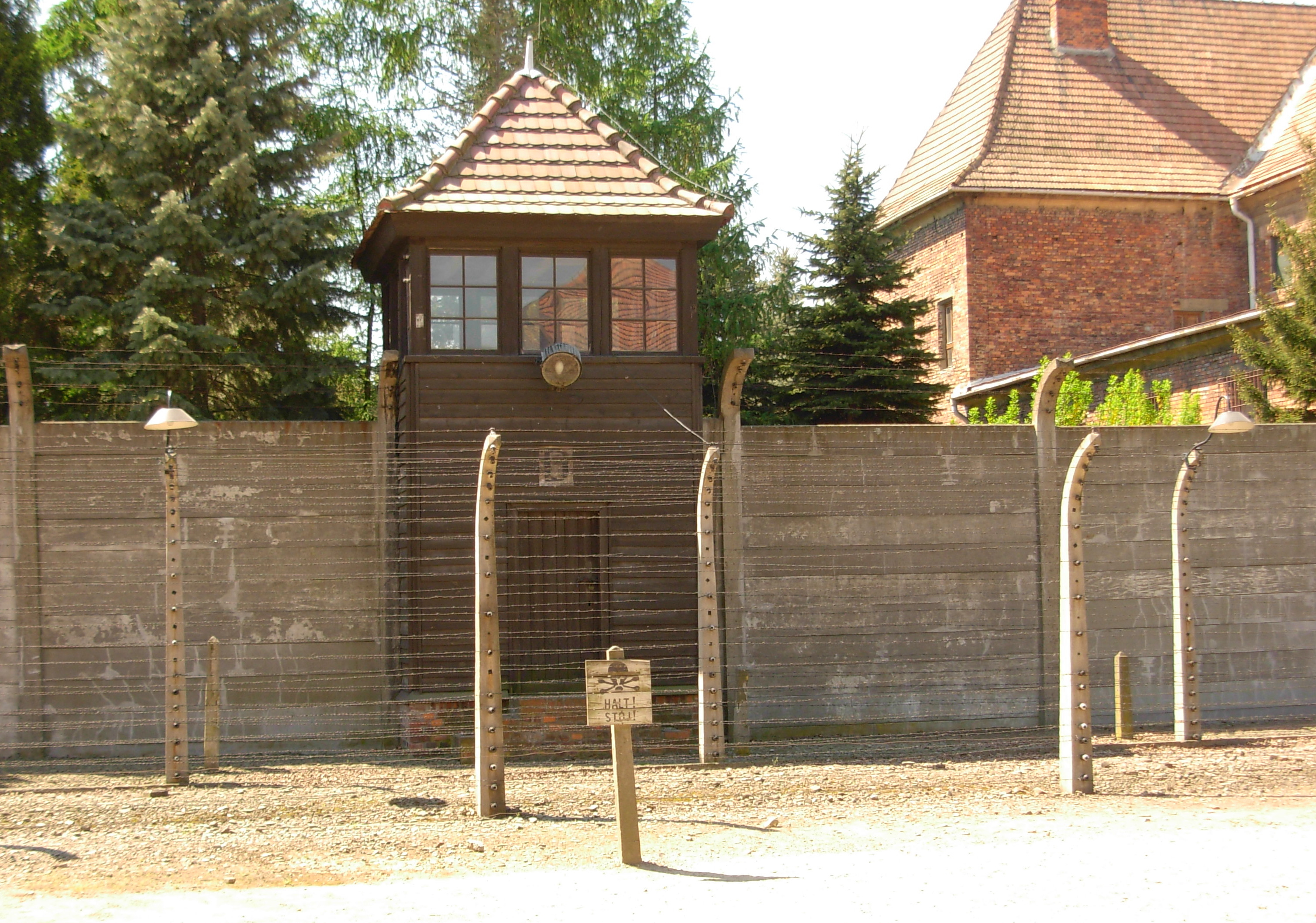 Auschwitz I concentration camp